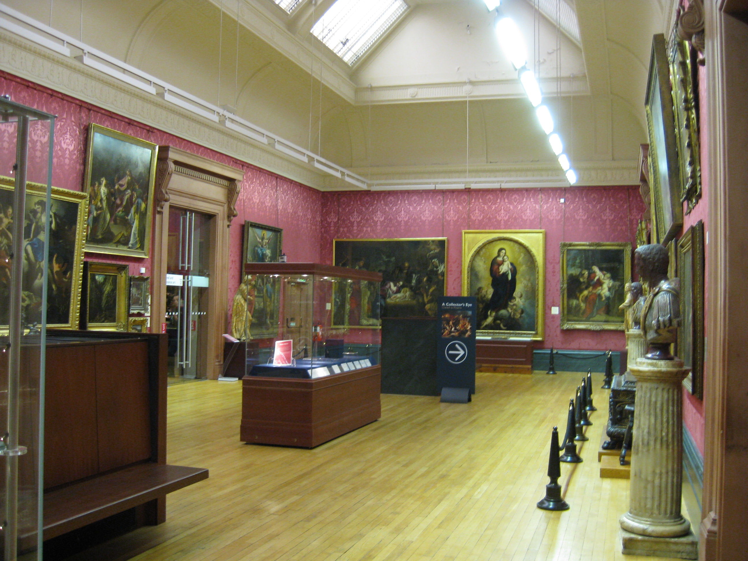 Interior, Walker Art Gallery, Liverpool.